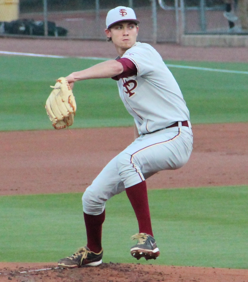 Pitcher Luke Weaver, 2014